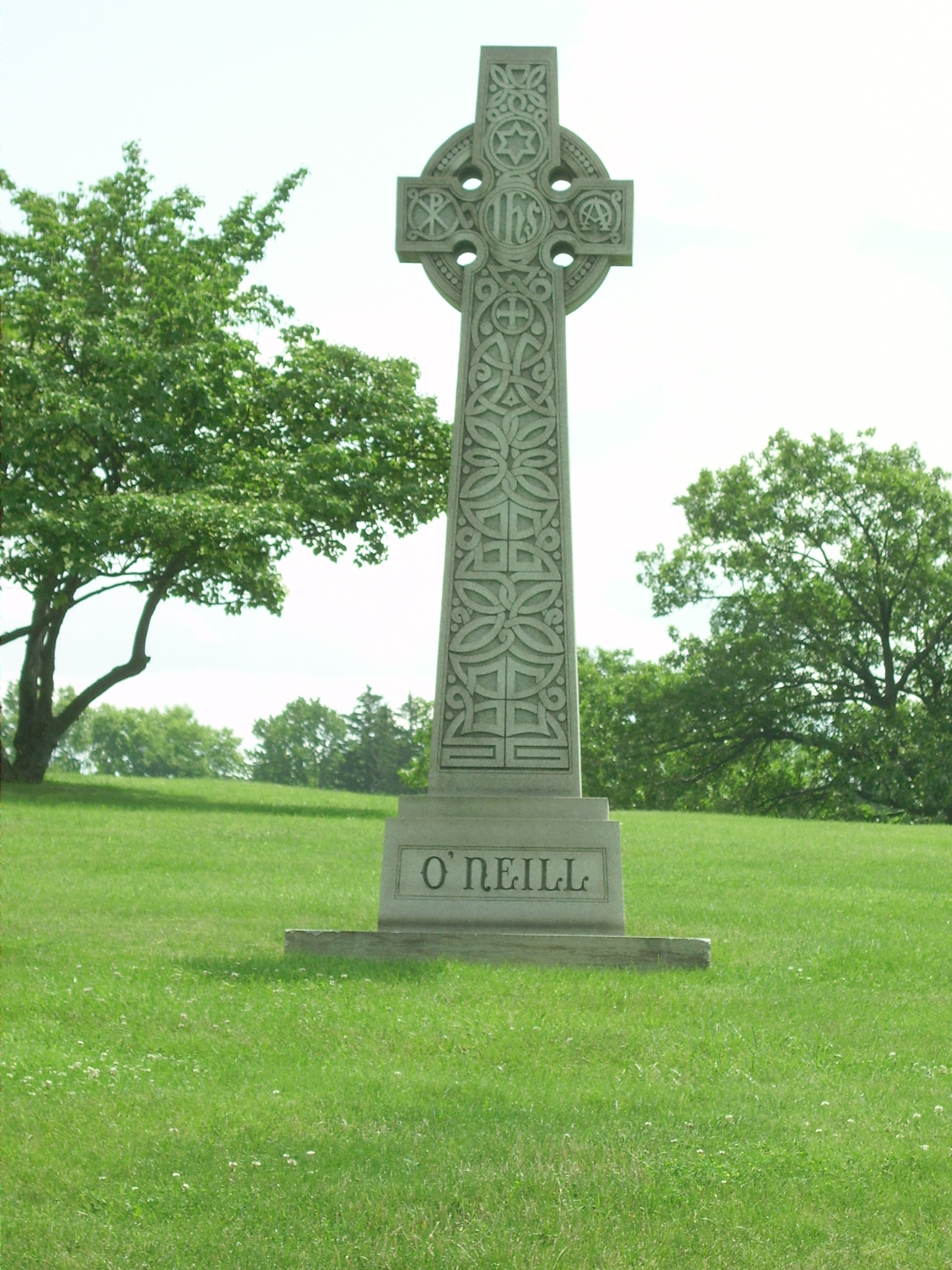 Celtic Cross Grave Marker, Calvary Cemetery, Cleveland, Ohio